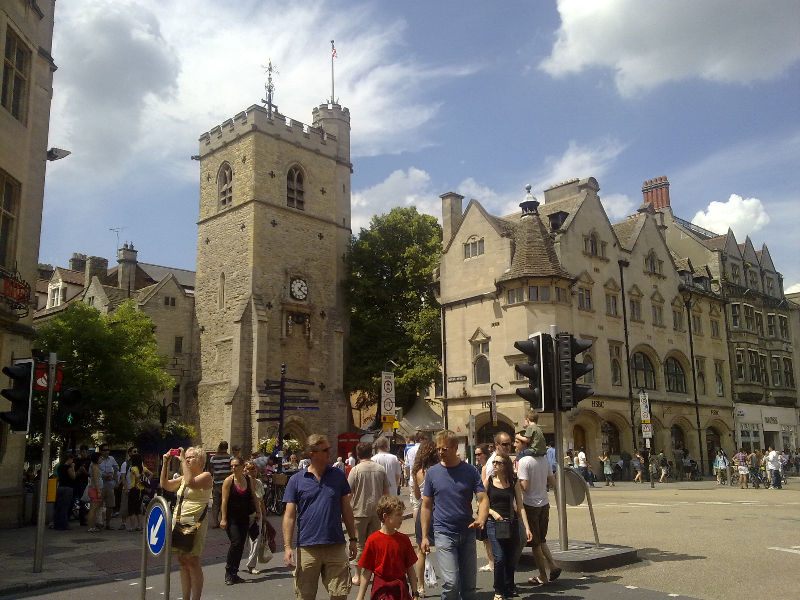 Carfax, Oxford, England: view from St Aldate's Street. On the left is the tower of the former St Martin's parish church. The rest of St Martin's was demolished in 1896. To the right of the tower is 62–65 Cornmarket Street, built in 1896–97 and now a branch of HSBC.